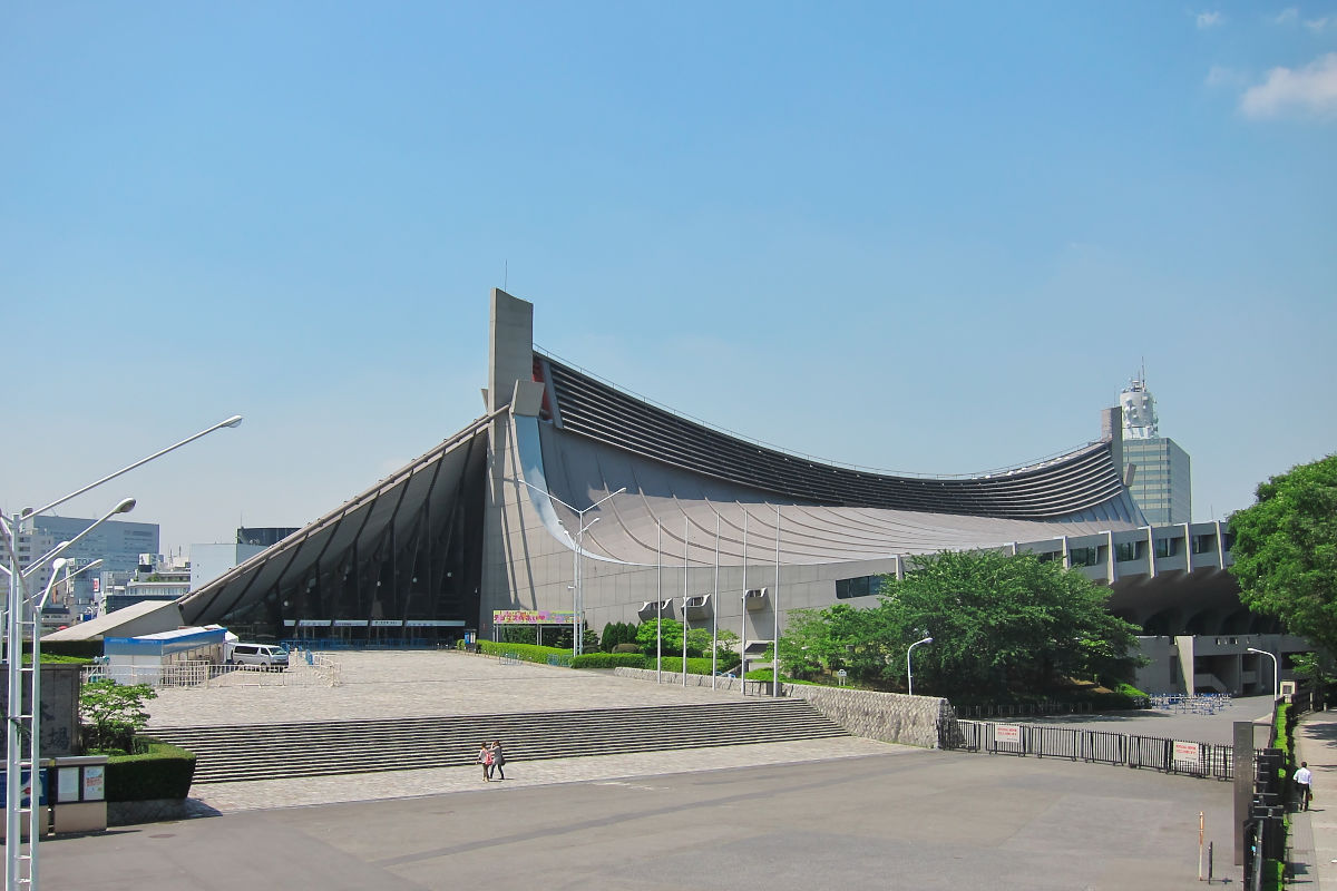 Yoyogi National Gymnasium (1st gymnasium) in Shibuya, Tokyo.